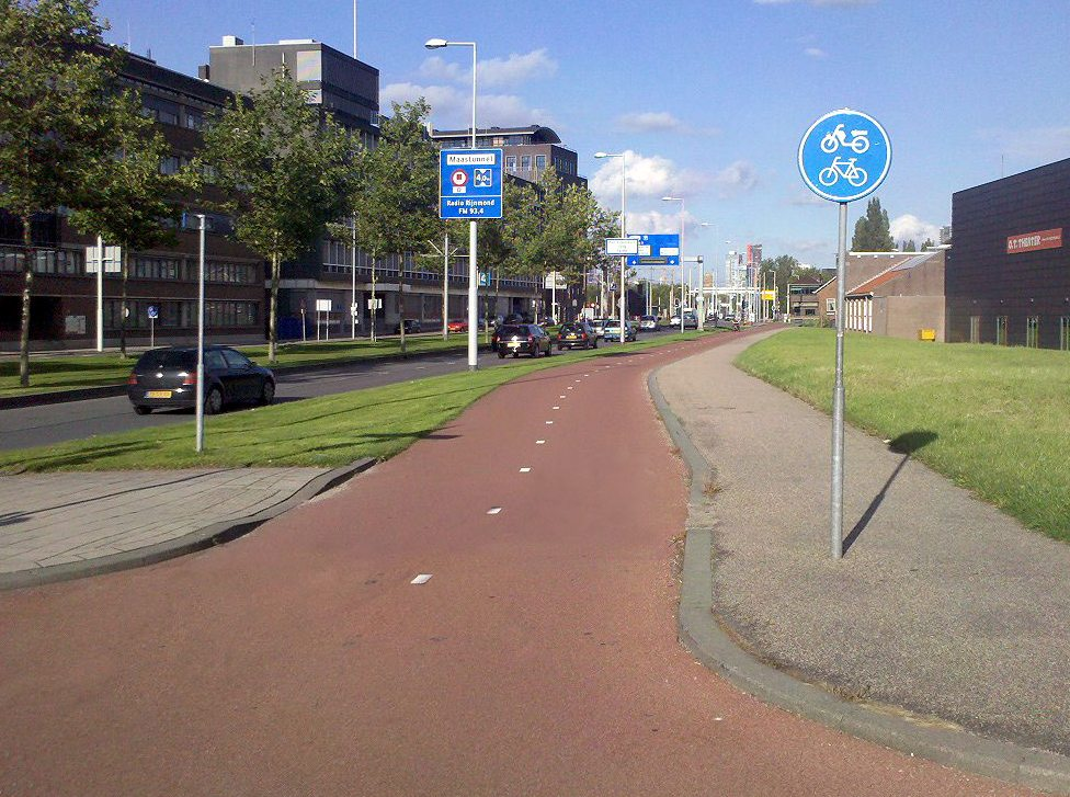 The bicycle path from the crossing Westzeedijk-Pieter de Hooghweg in North-East direction in Rotterdam.